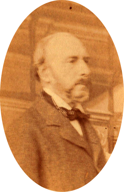 Dr George Strong, owner of "The Chase" Ross-On-Wye, Hereforeshire